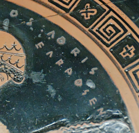 Douris' signature (ΔΟΡΙΣ ΕΓΡΑΦΣΕΝ), detail from a scene representing Eos lifting up the body of her son Memnon. Interior from an Attic red-figure cup, ca. 490–480 BC. From Capua, Italy.